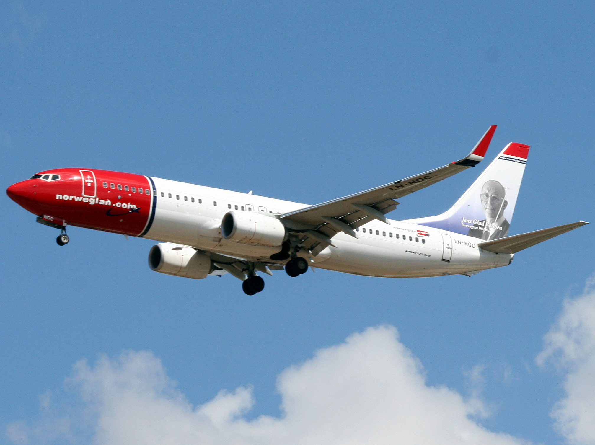 Landing at Ben Gurion Airport